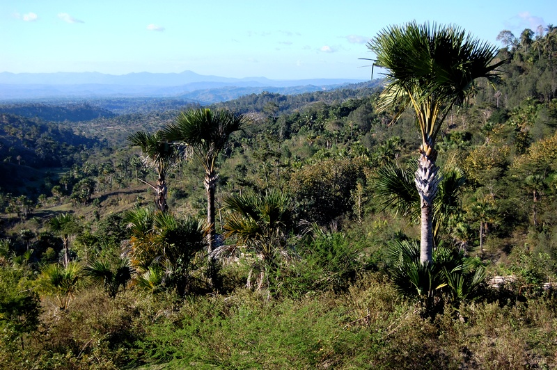 Corypha utan palms, scattered in hilly savanna near Ayotupas, West Timor, Indonesia, South Central Timor Regenc